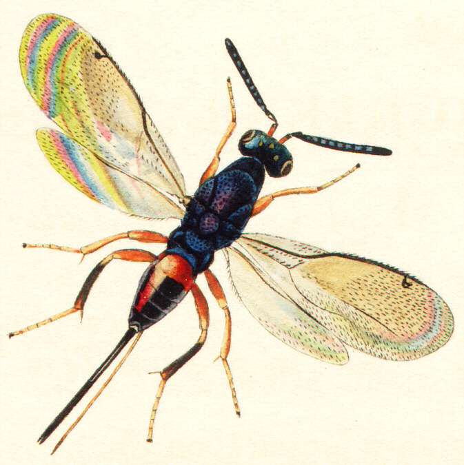 Torymus nobilis by Boheman, 1834